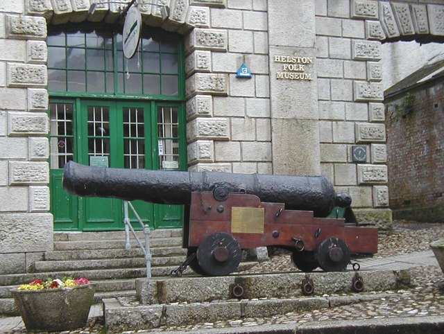 Cannon outside Helston Folk Museum. Picture taken from car on opposite side of road, unable to leave car to get details on brass plate.